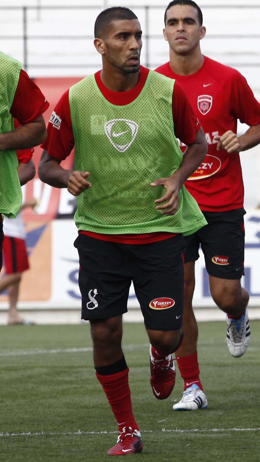 Khaled Lemmouchia during a training session with USM Alger at Omar Hamadi stadium. This file has been extracted from another file: Entraînement de l'USM Alger, 2011-09-24.jpg